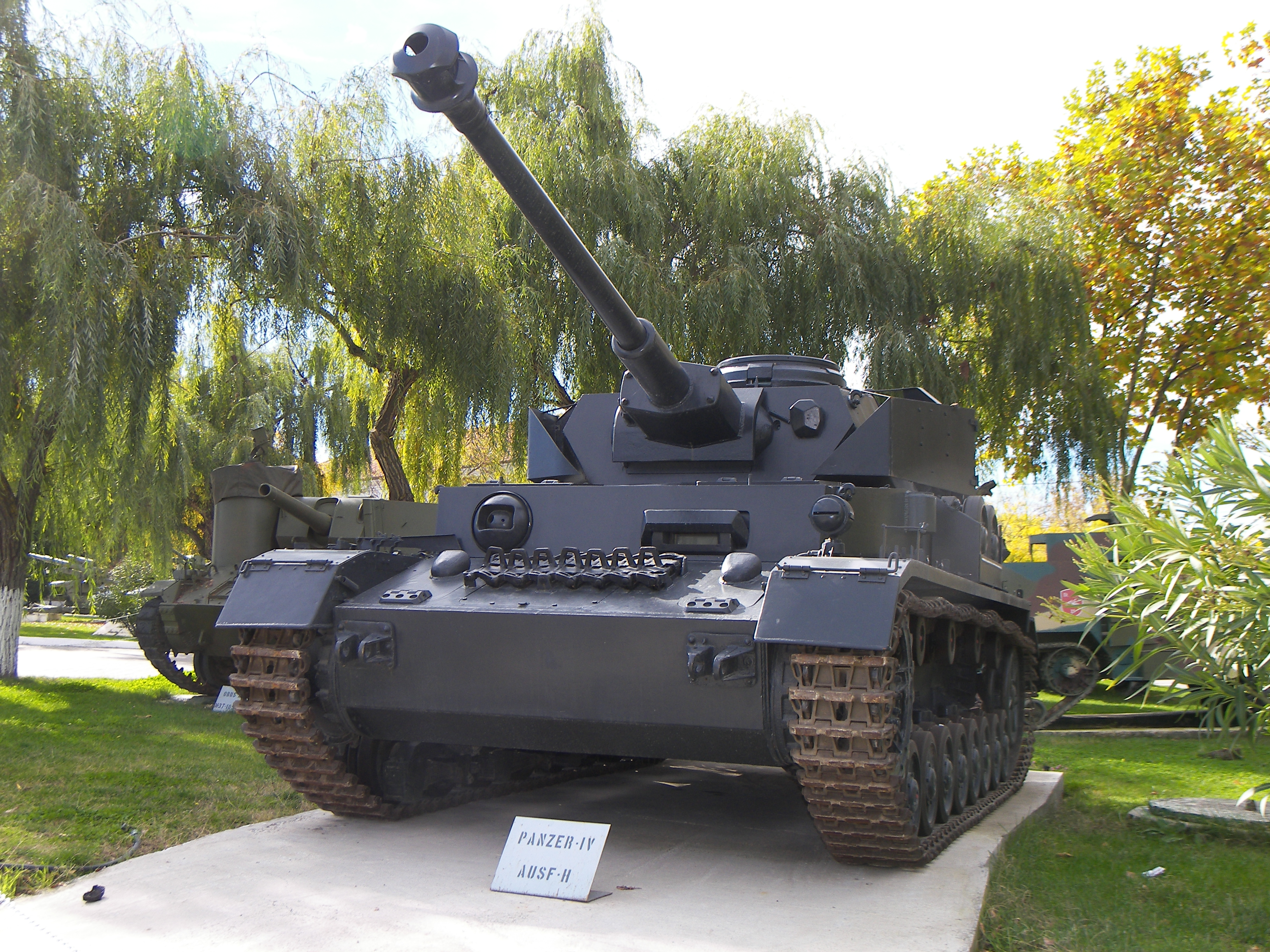 Spanish Panzer IV at El Goloso museum